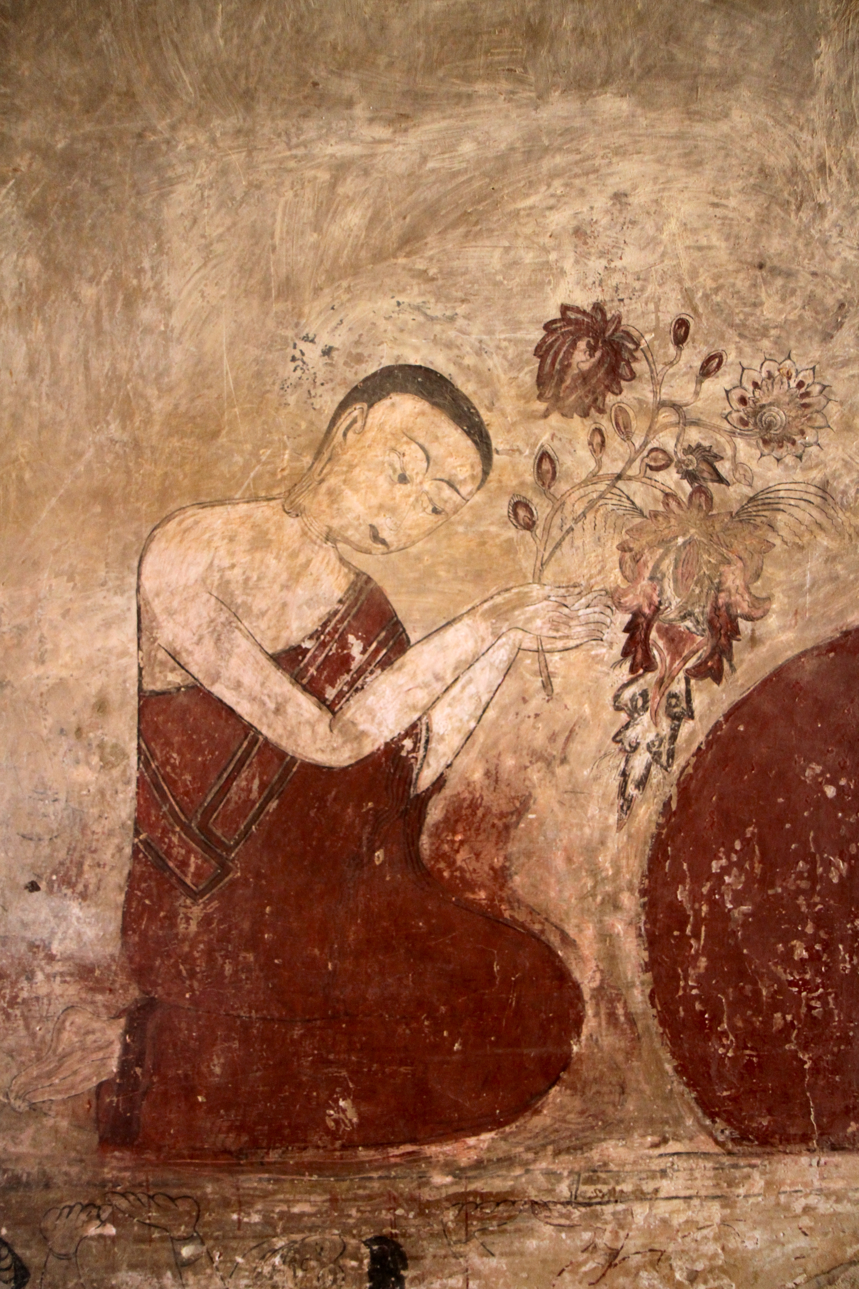 Sulamani Pahto fresco detail